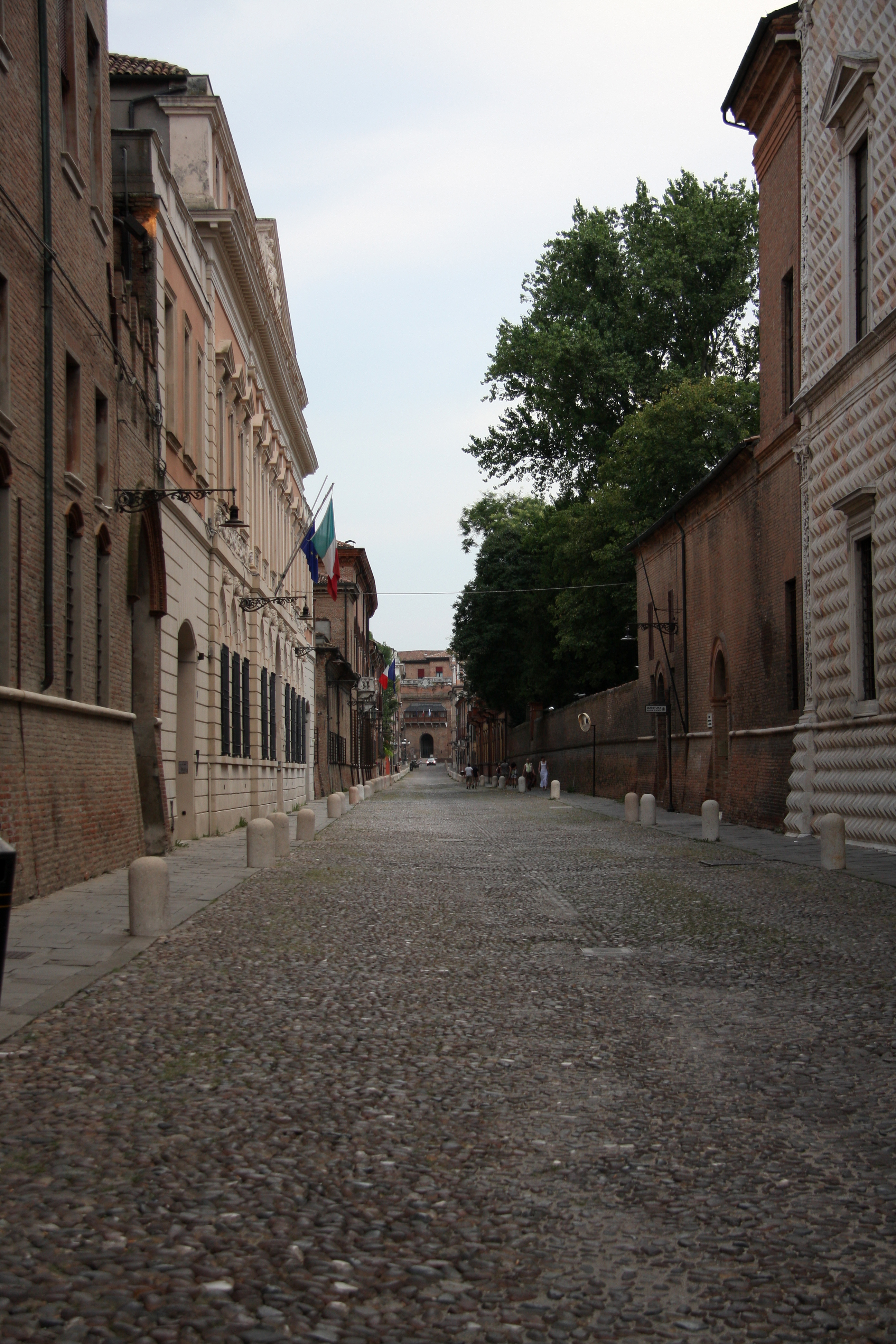 Corso Ercole I d'Este, Ferrara, Italy, a view towards Castle Estense.